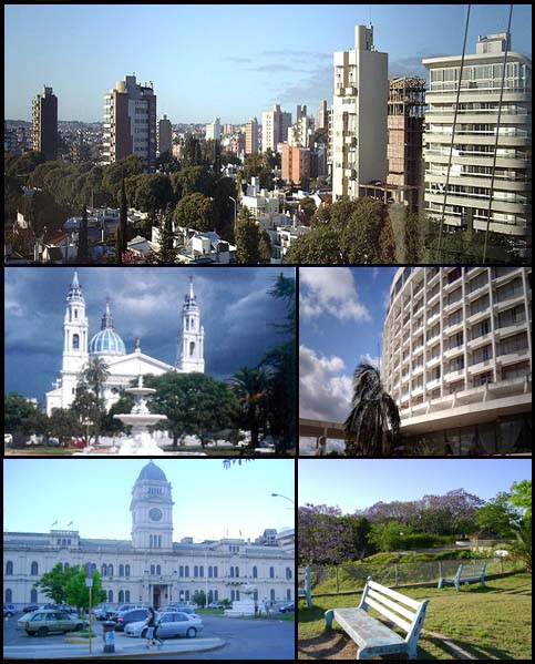 Paraná, Entre Ríos